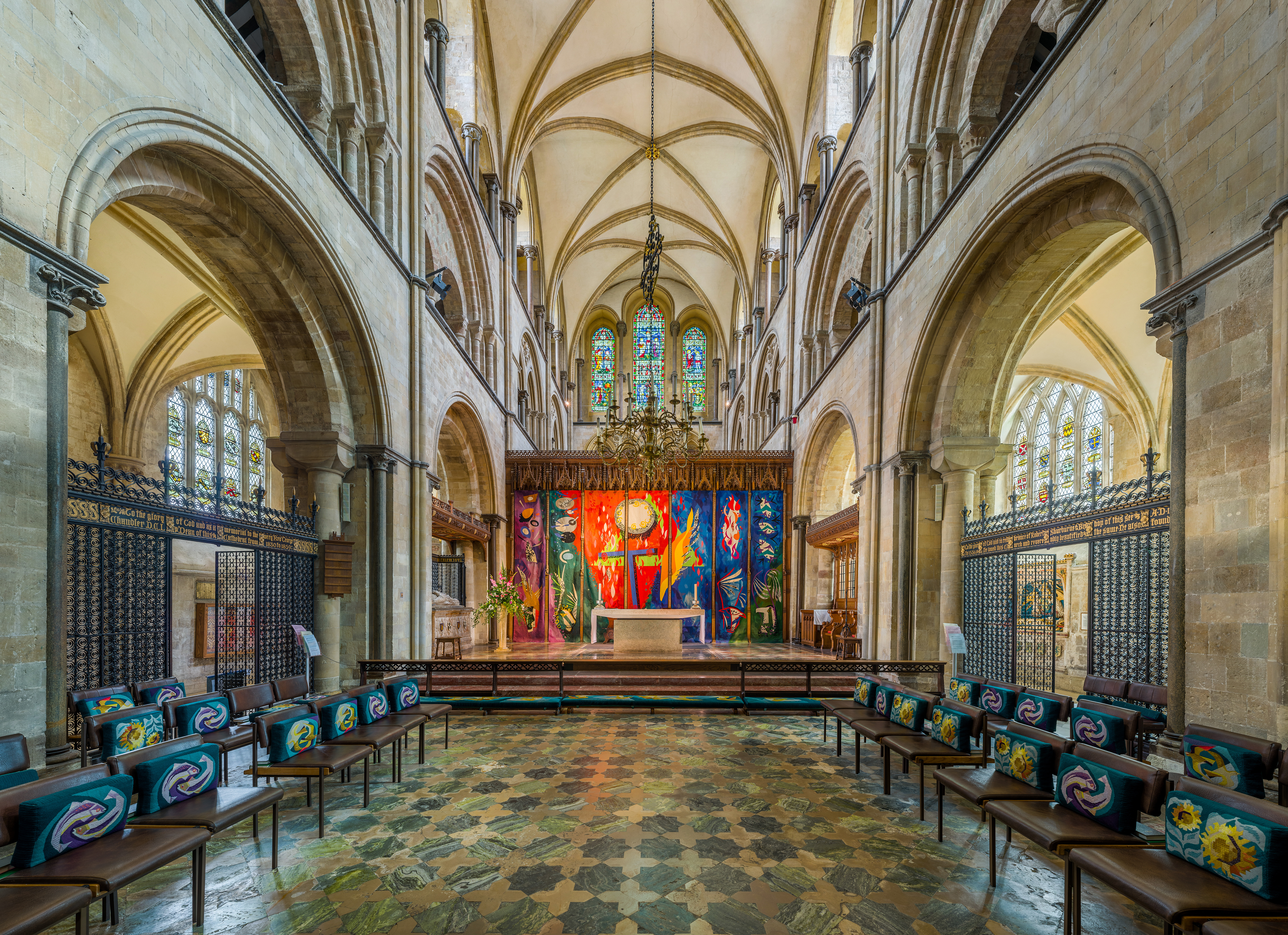 The high altar of Chichester Cathedral looking east, in West Sussex, England.